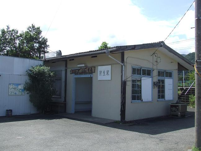 Kariu Station on Nippo Main Line